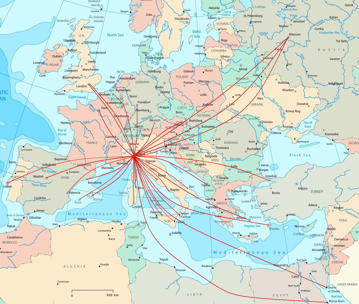 The network of Genoa Airport at year 2013